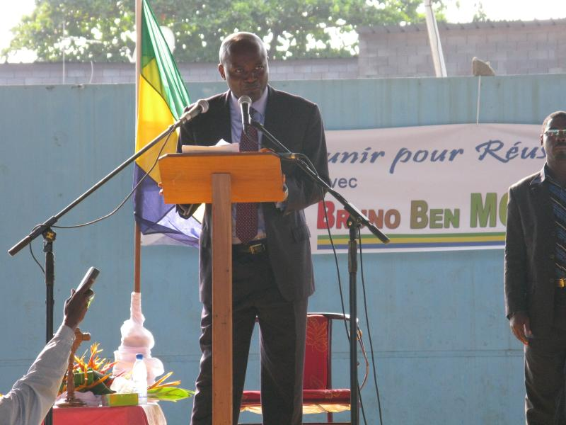 Bruno Ben Moubamba, candidate in the August 2009 presidential election in Gabon